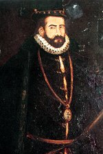 Matias de Albuquerque, 15.º vice-rei da Índia